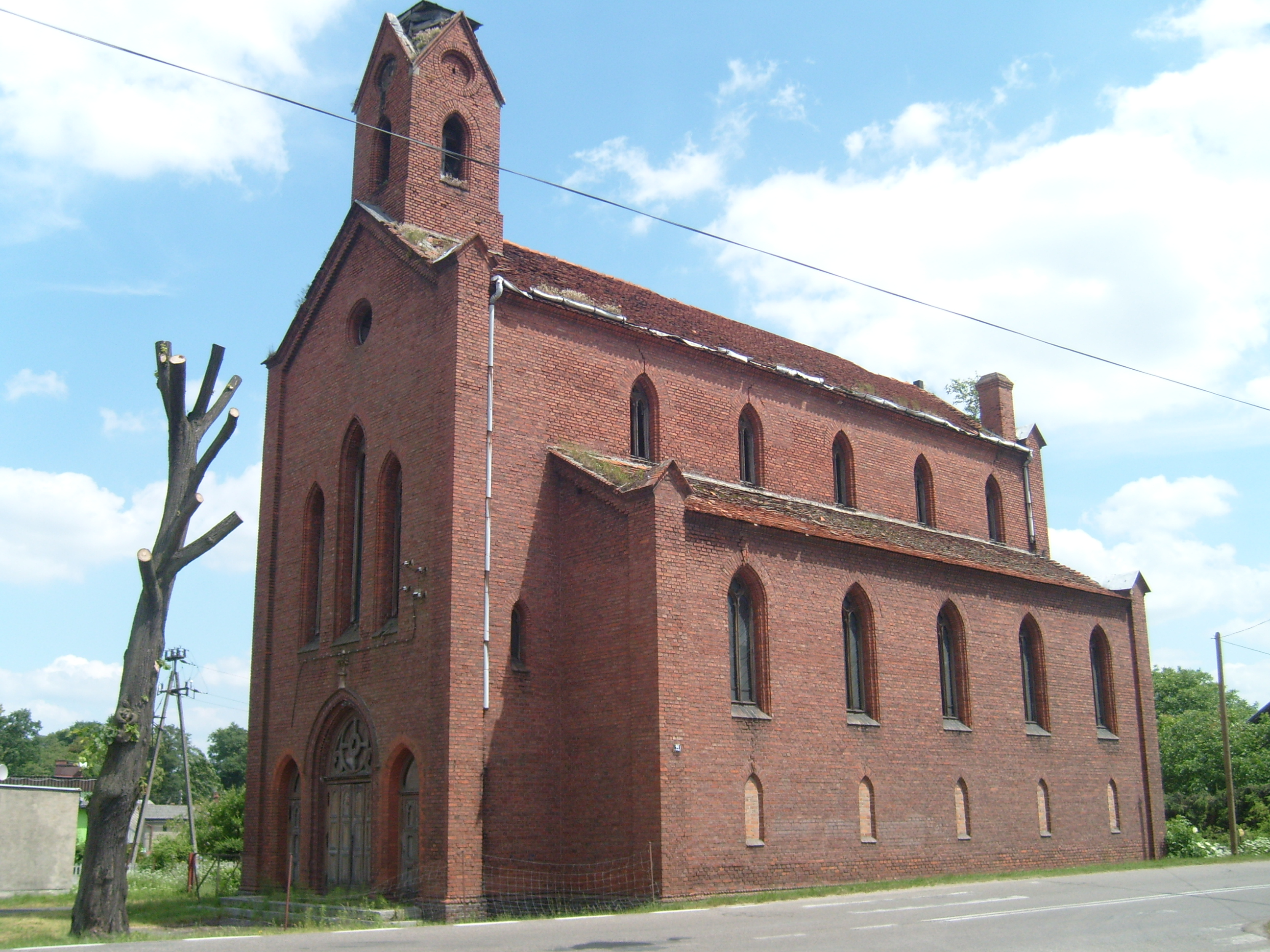 Evangelical church in Połajewo, Poland.